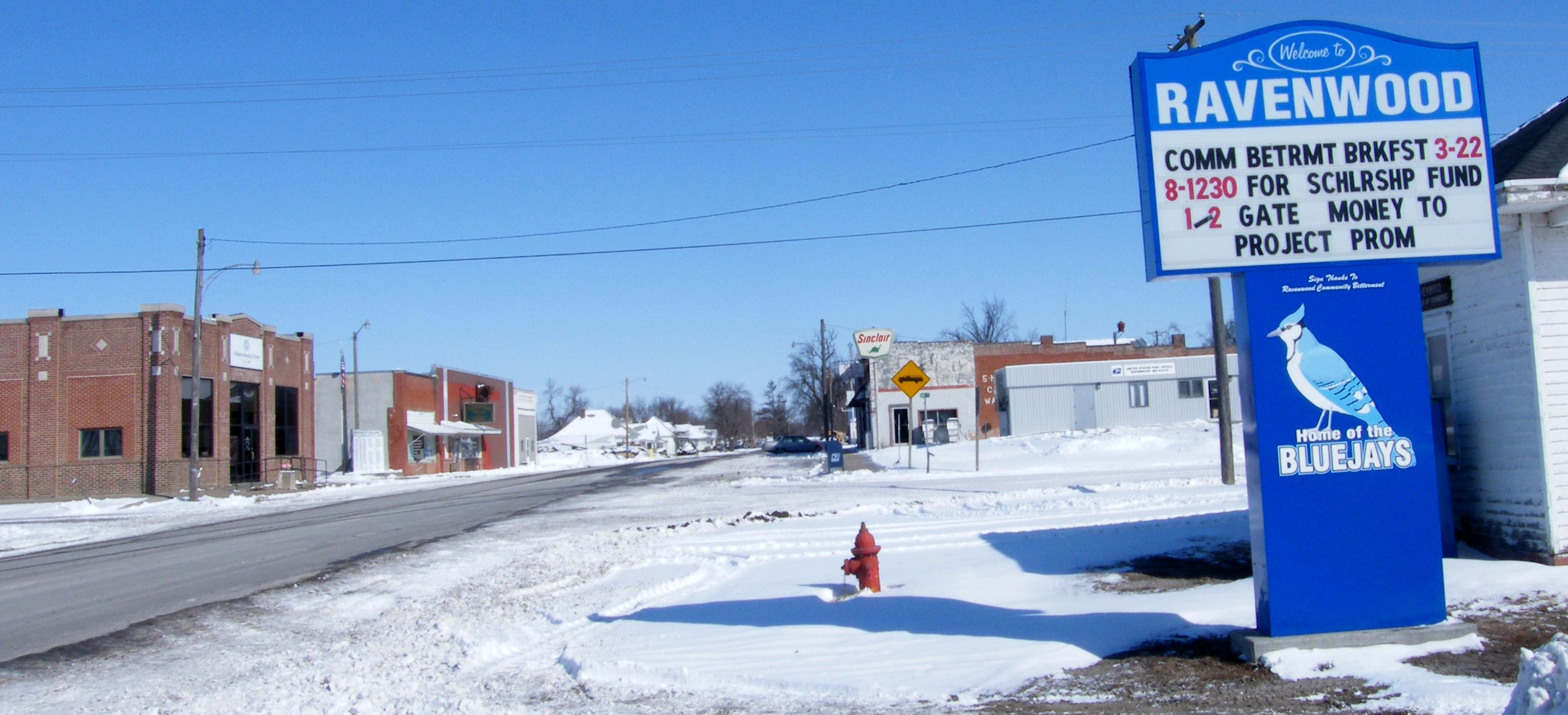 Ravenwood, Missouri in March 2009